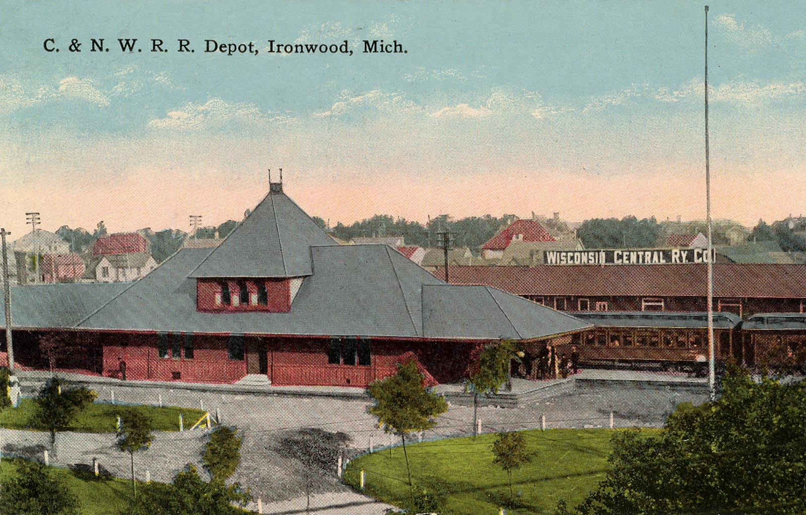 The Railroad Depot in Ironwood, Michigan around 1910